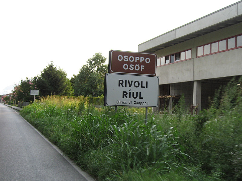 Bilingual roadsign of the community of Osoppo/Osôf and the fraction Rivoli/Ríul in Italian and Furlan, the friulian language Furlan: Segnaletiche stradâl bilengâl in comun di Rivoli/Ríul, fraziun di Osoppo/Osôf Boarisch: S'zwoaschbråchige Oatsschüdl fu da Oatschåft Rivoli/Ríul in da Gmõa Osoppo/Osôf im Friaul. Om schdeds auf Italienisch unt af Furlan.